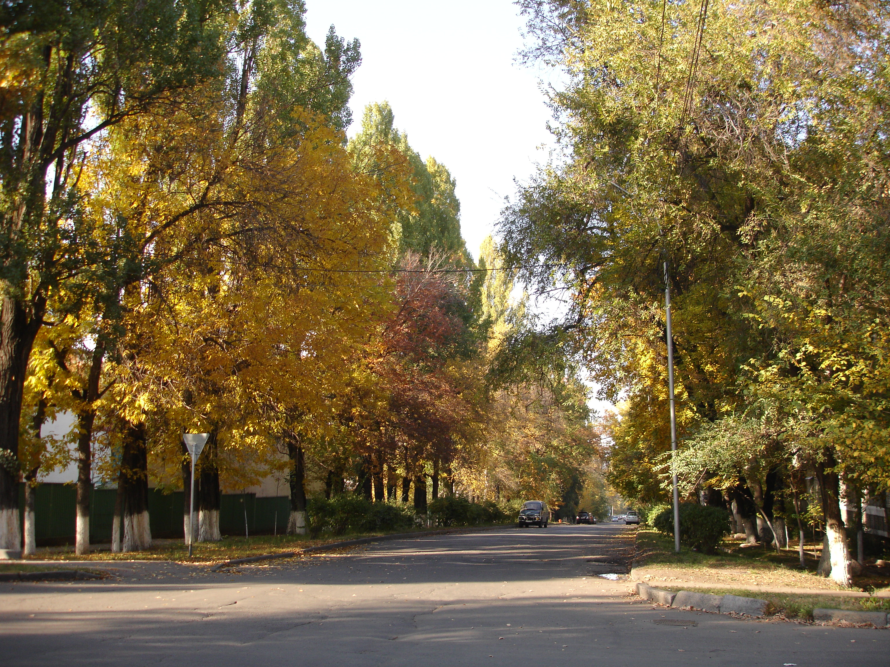 Almaty, Corner Pushkin and Shevchenko streets